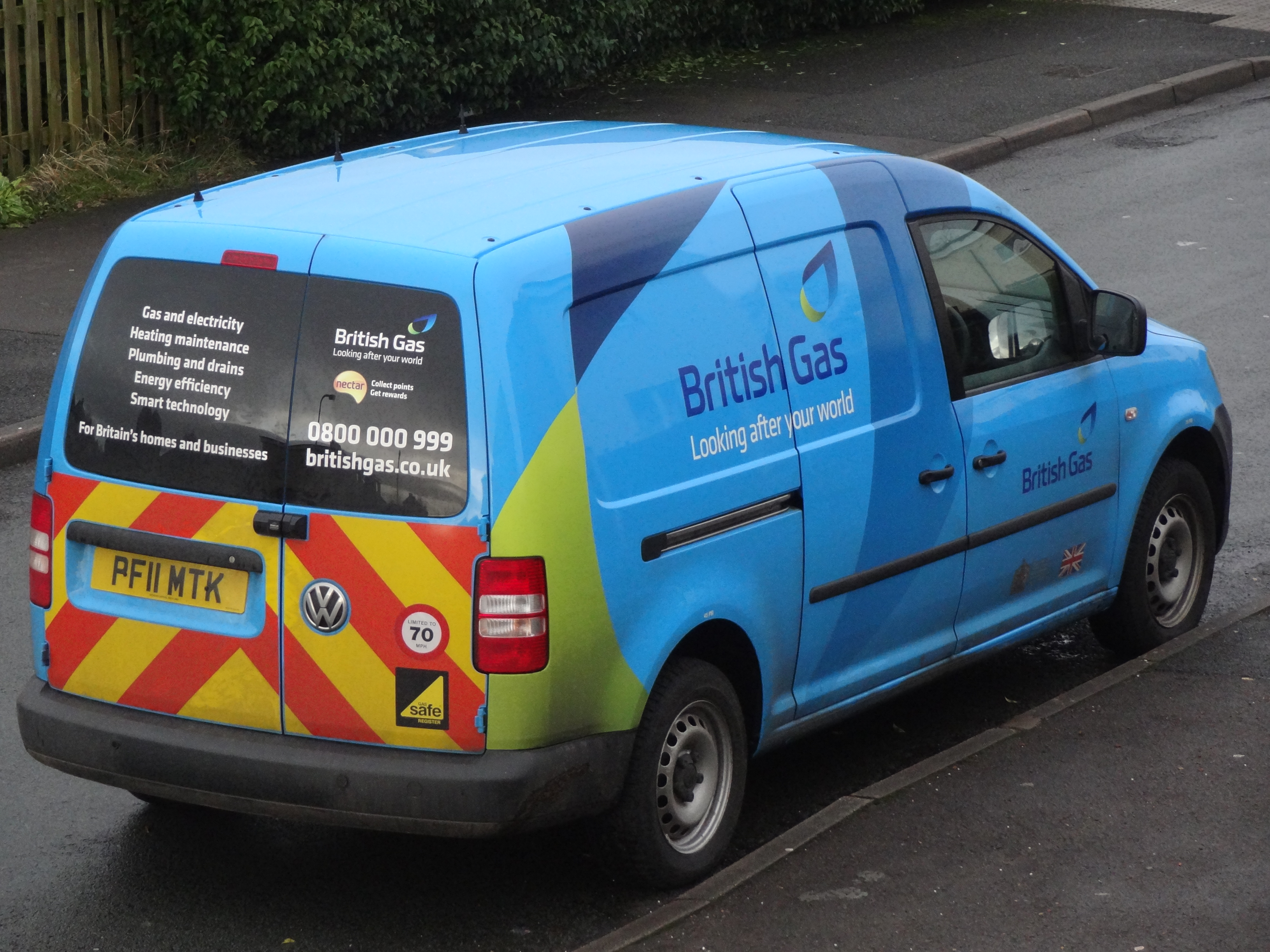 British Gas van